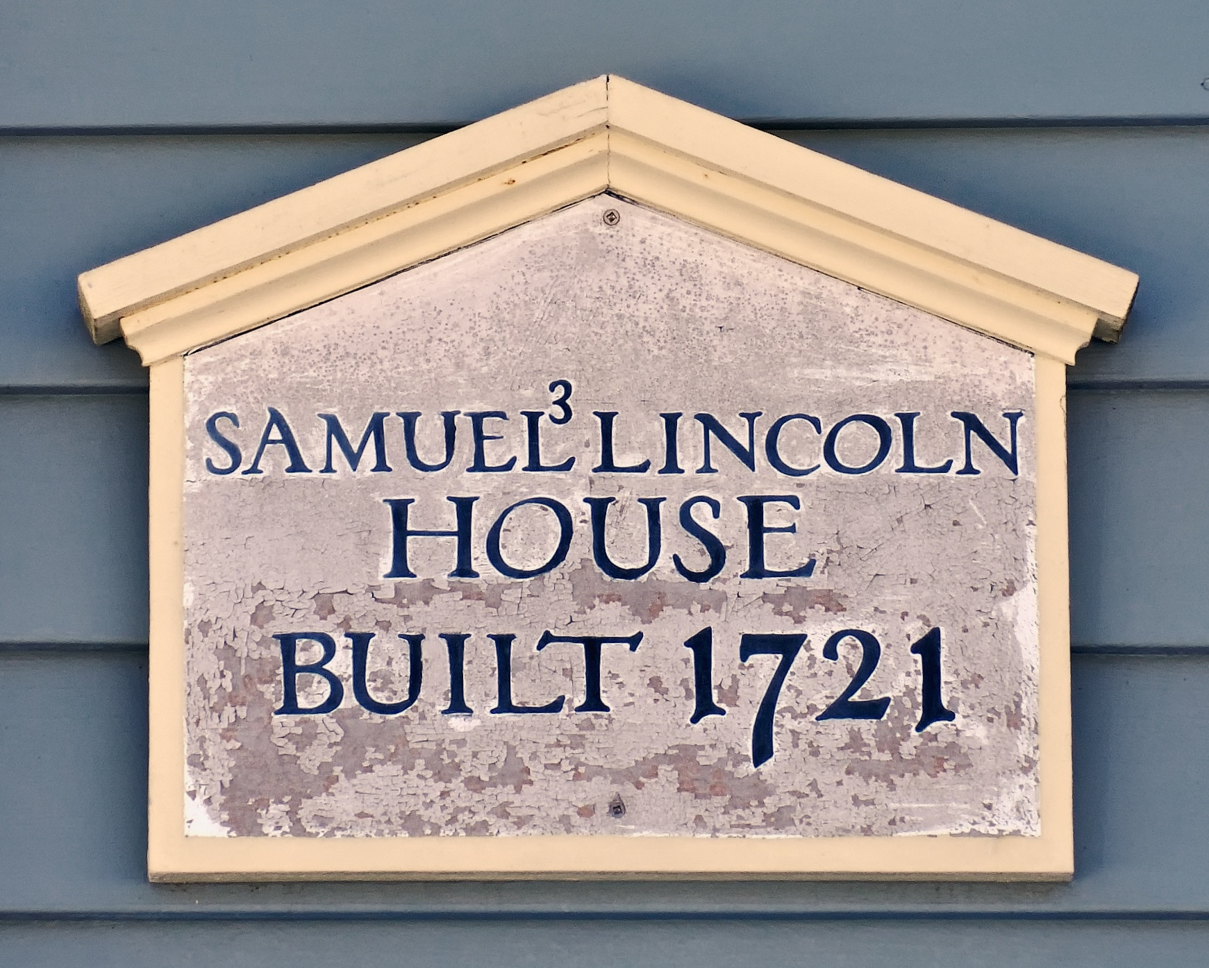 Samuel Lincoln House, Sign, Hingham, Massachusetts